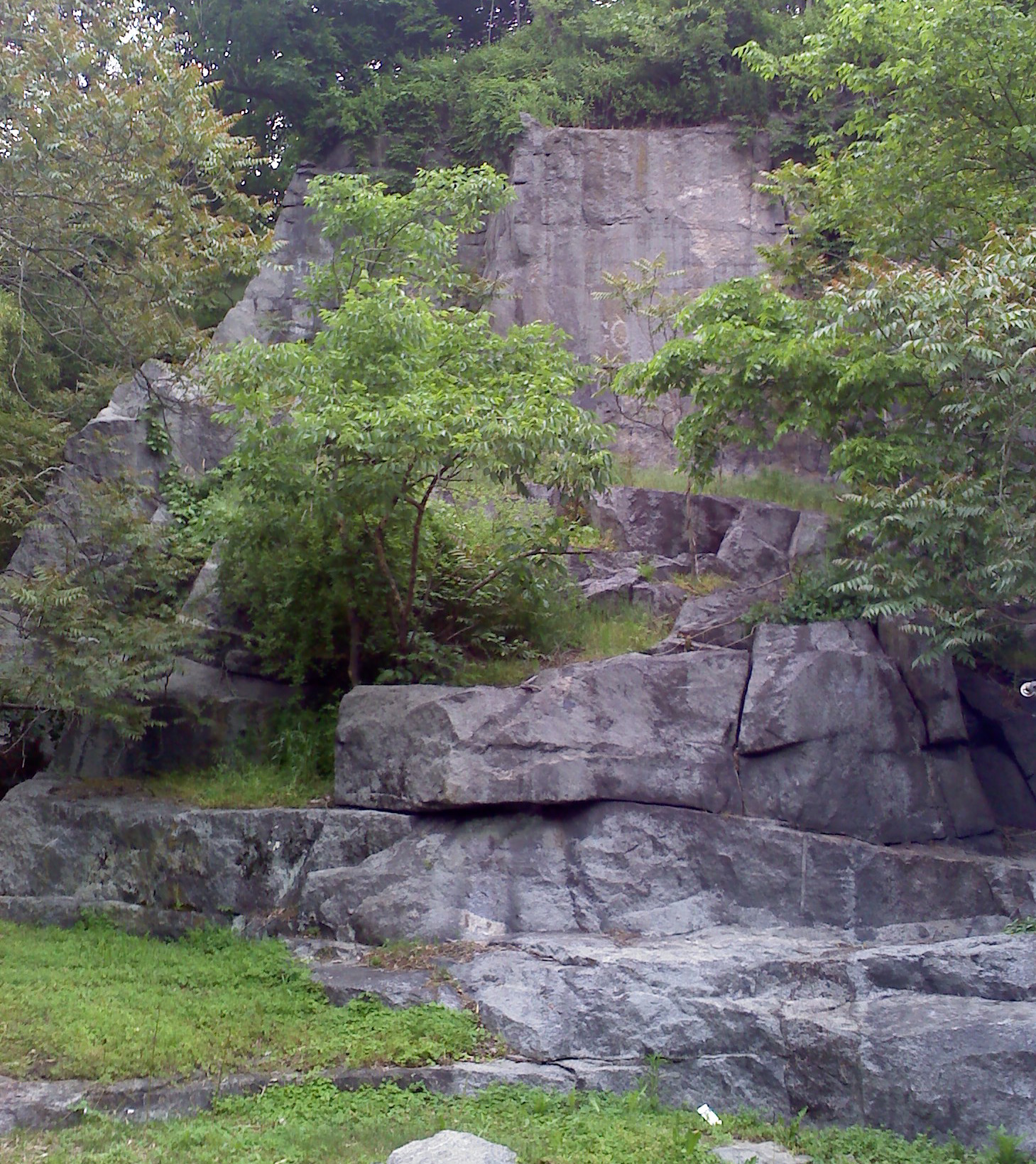 Photo of rock wall behind Fireside Stone & Patio southeast of Ellicott City in Baltimore County, MD, showing the Ellicott City Granodiorite